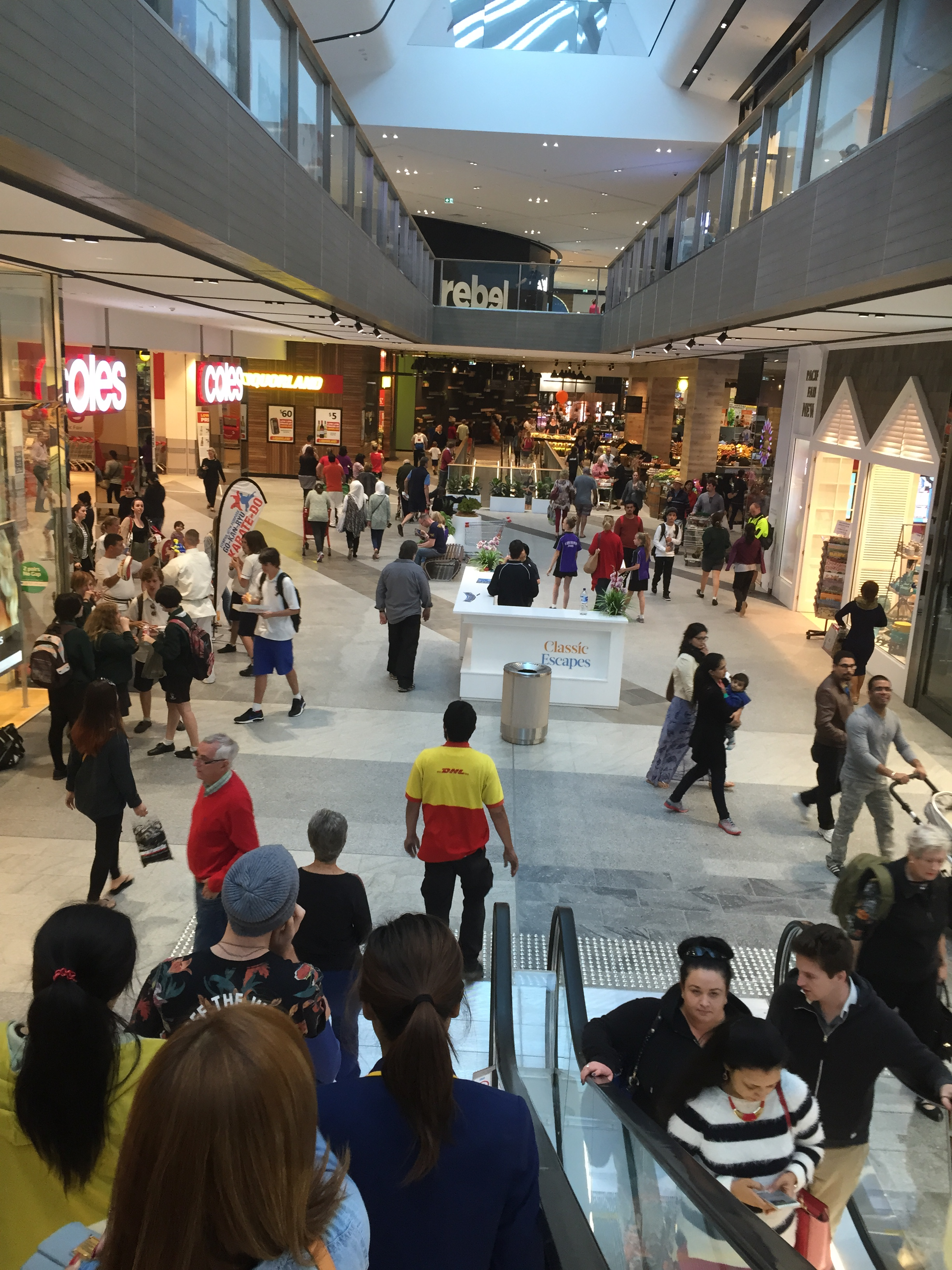 The second stage of the redevelopment. (Coles Supermarket shown on left)